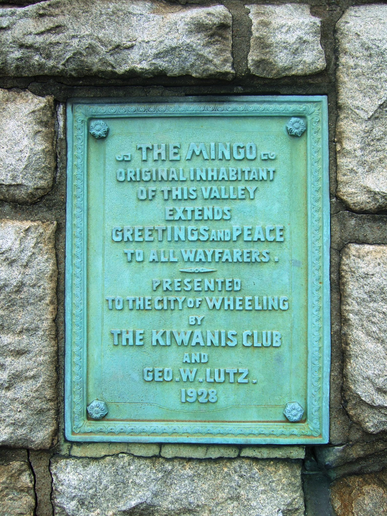 "The Mingo" Statue on National Road, Wheeling Hill in Wheeling, WV. Plaque text: "Original inhabitant of this valley extends greetings and peace to all wayfarers. Presented to the City of Wheeling by The Kiwanis Club and Geo. W. Lutz, 1928"